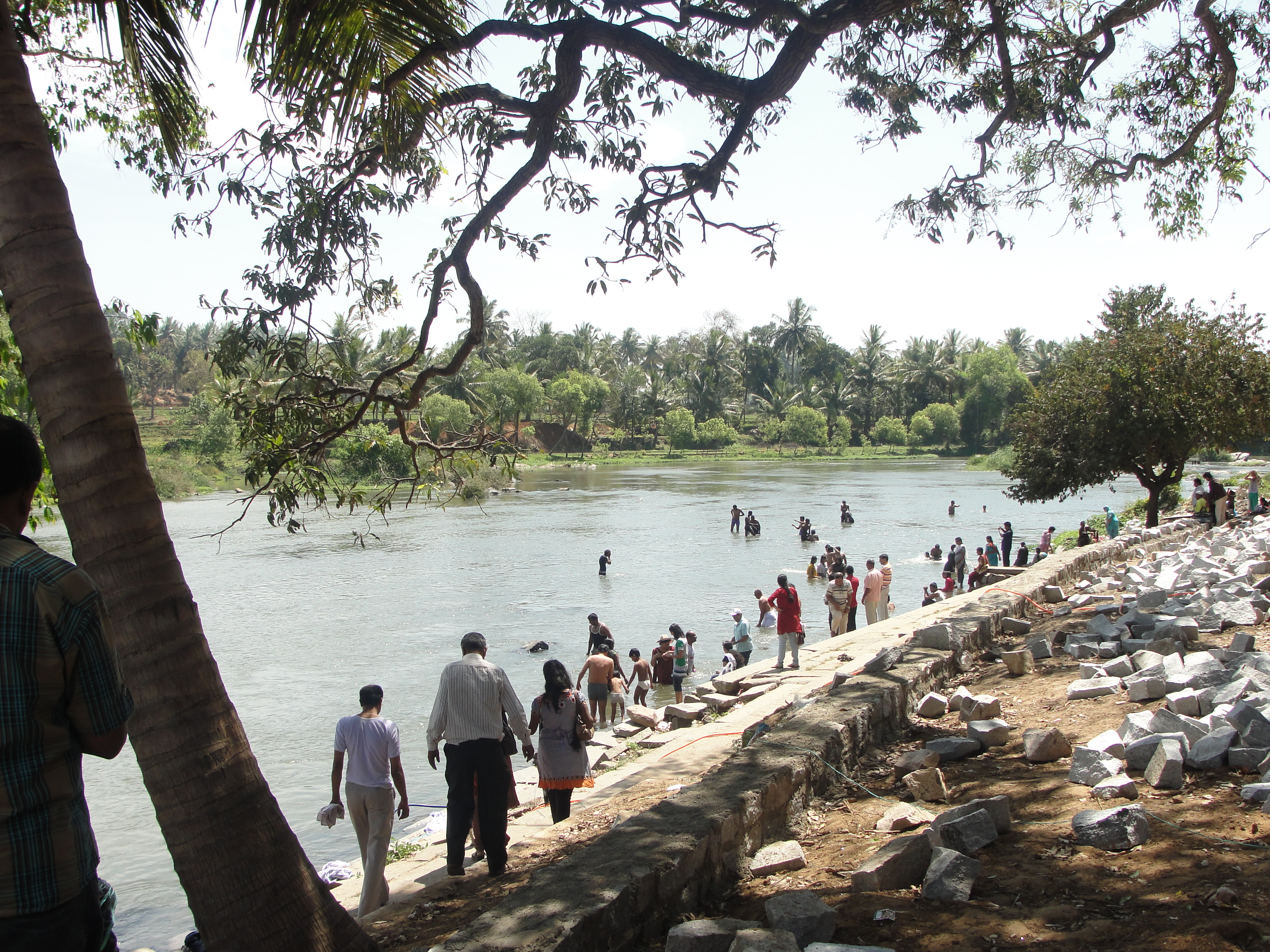 Kaveri river bathing place near Gosai Ghat, Mysore, Karnataka, India